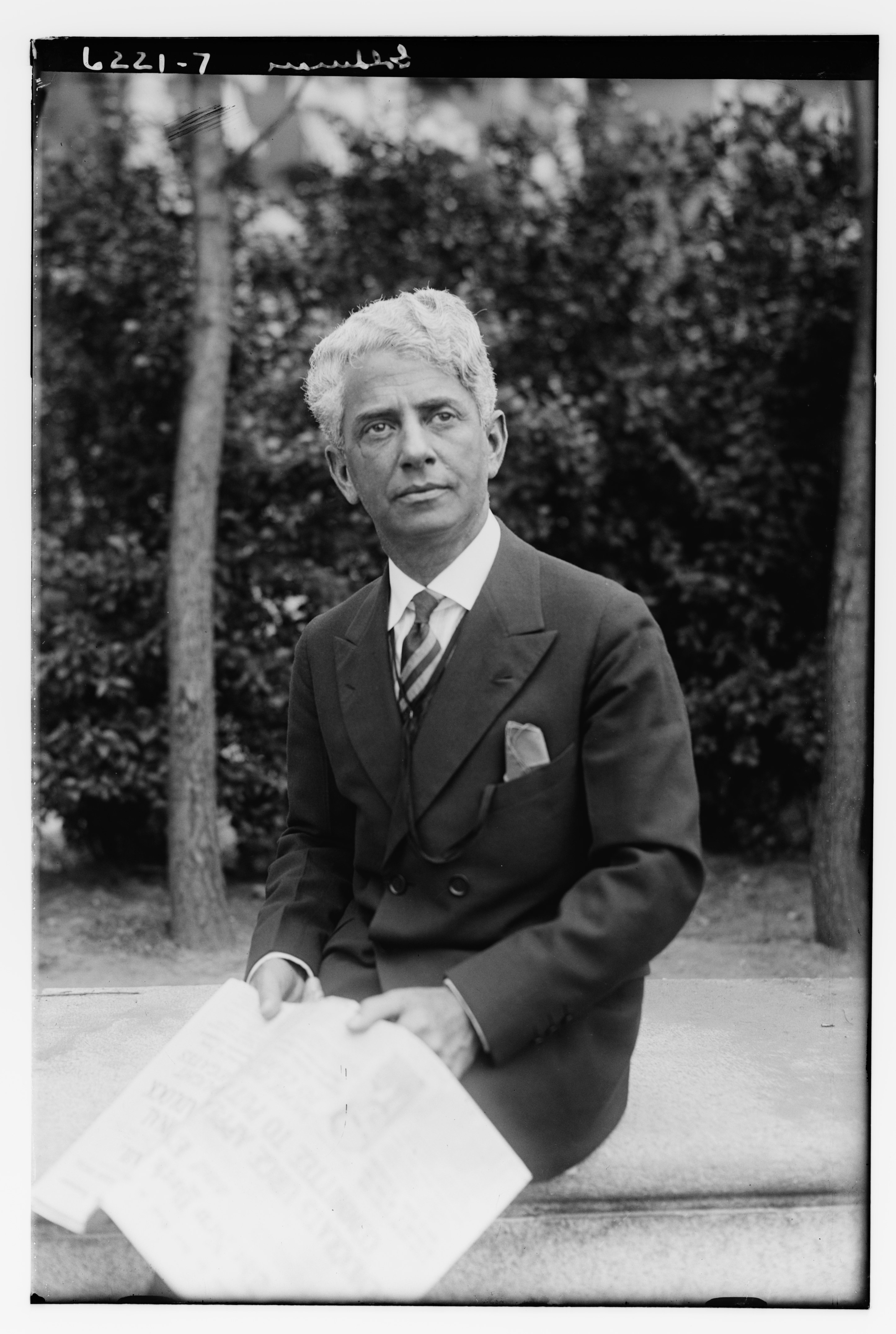 Title: Goldman Abstract/medium: 1 negative : glass ; 5 x 7 in. or smaller.